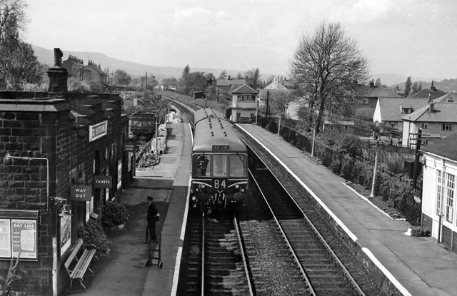 Ben Rhydding Station. View westward, towards Ilkley and Skipton; ex-Midland & NE (Otley & Ilkley)Joint line, Leeds/Bradford - Ilkley - Skipton line. (Early Diesel railcar service to Skipton at Down platform).